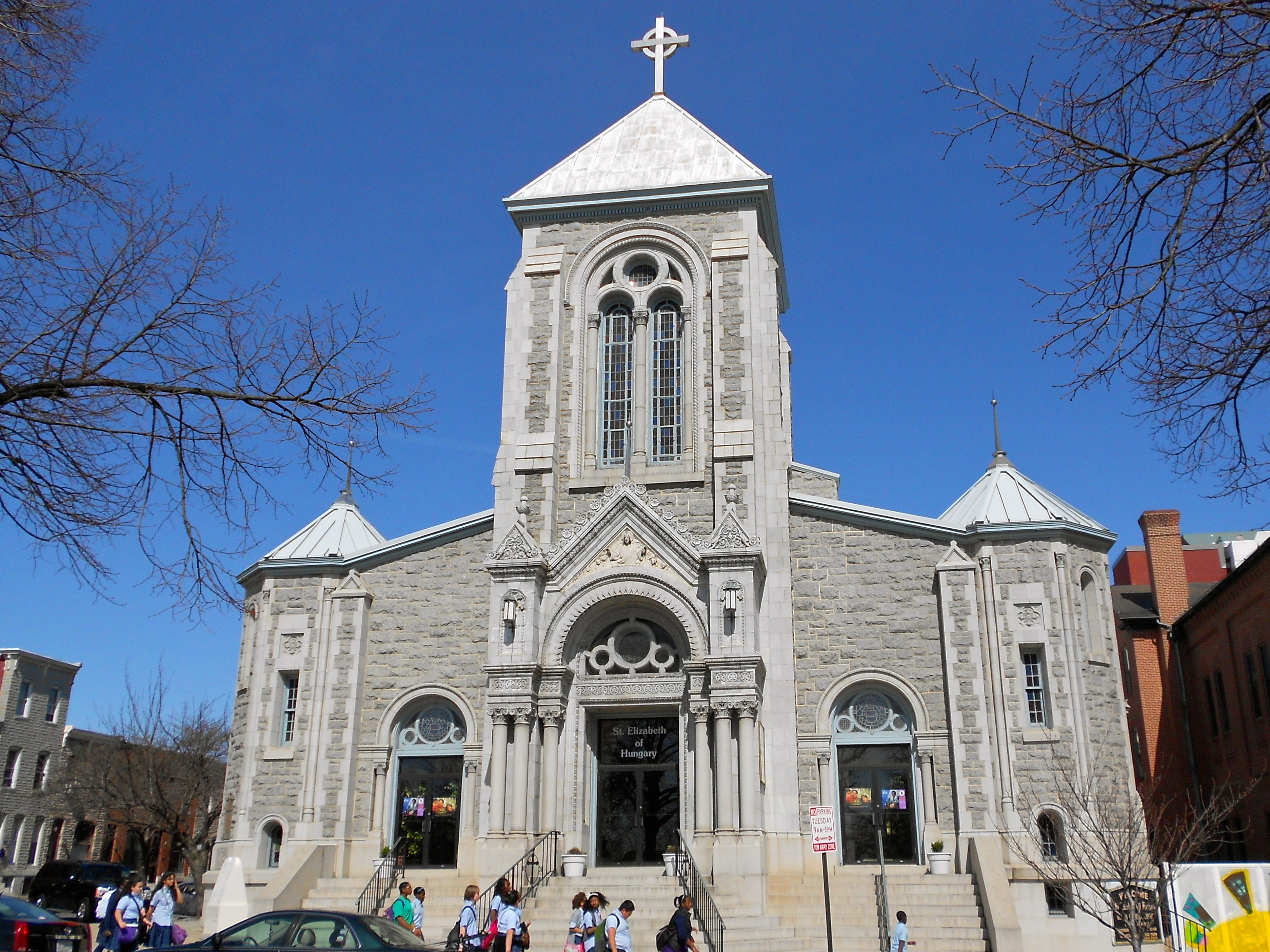 St. Elizabeth of Hungary on the NRHP since November 4, 1994 At junction of E. Baltimore St. and Lakewood Ave. across from the park in southeast Baltimore, Maryland. Roman Catholic